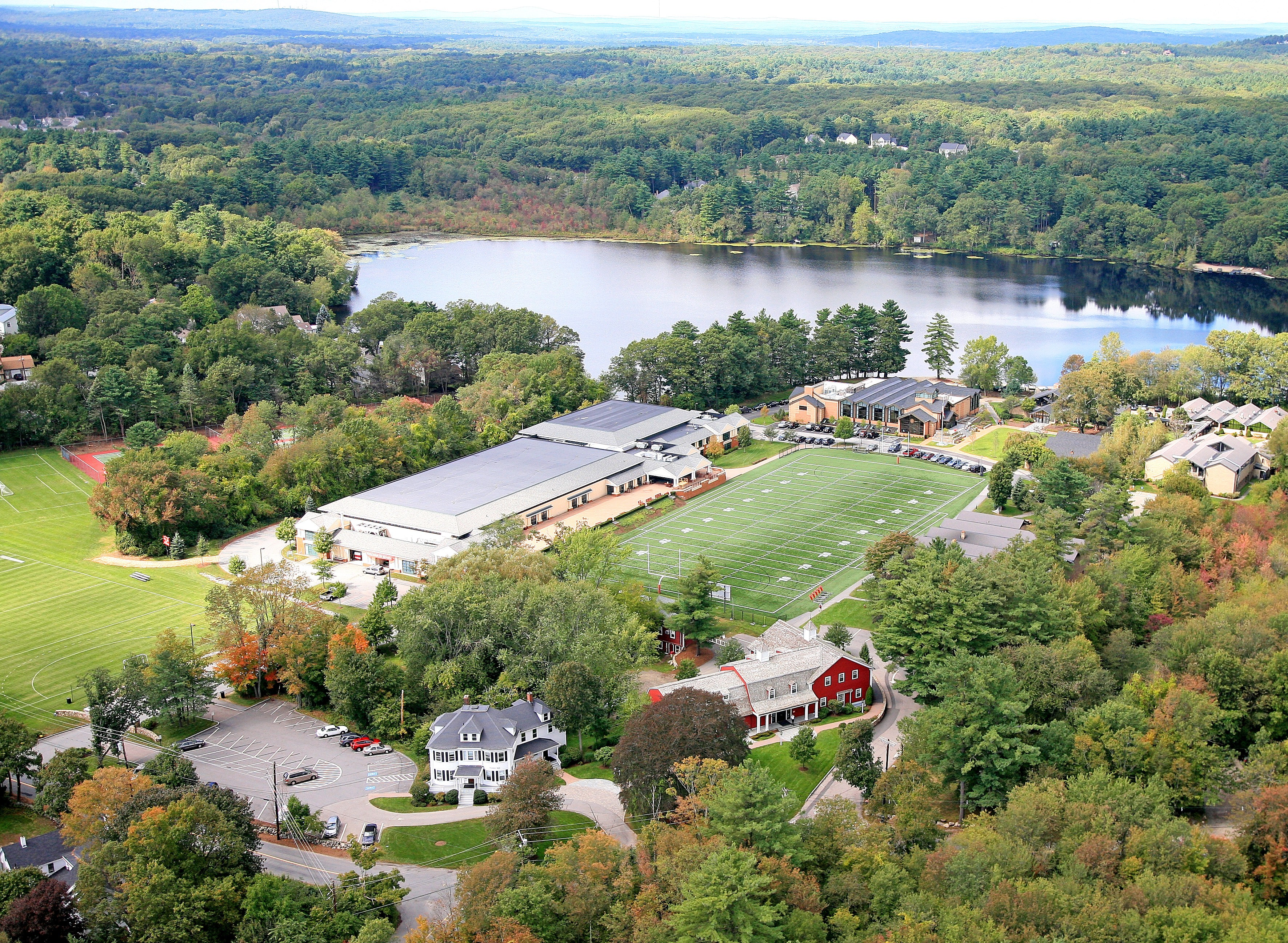 The Rivers School campus in Weston Massachusetts.